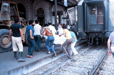 Bombing at Bologna: August 2nd 1980